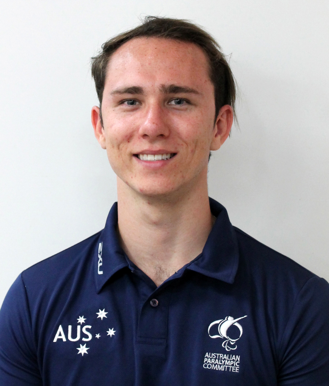 Portrait of Australian 2016 Paralympic Team member Tom O'Neill-Thorne.